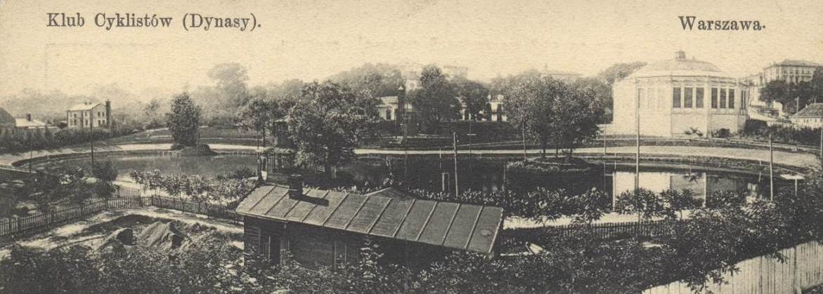 Cyclink track of the Warsaw Cycling Society at Dynasy in Warsaw